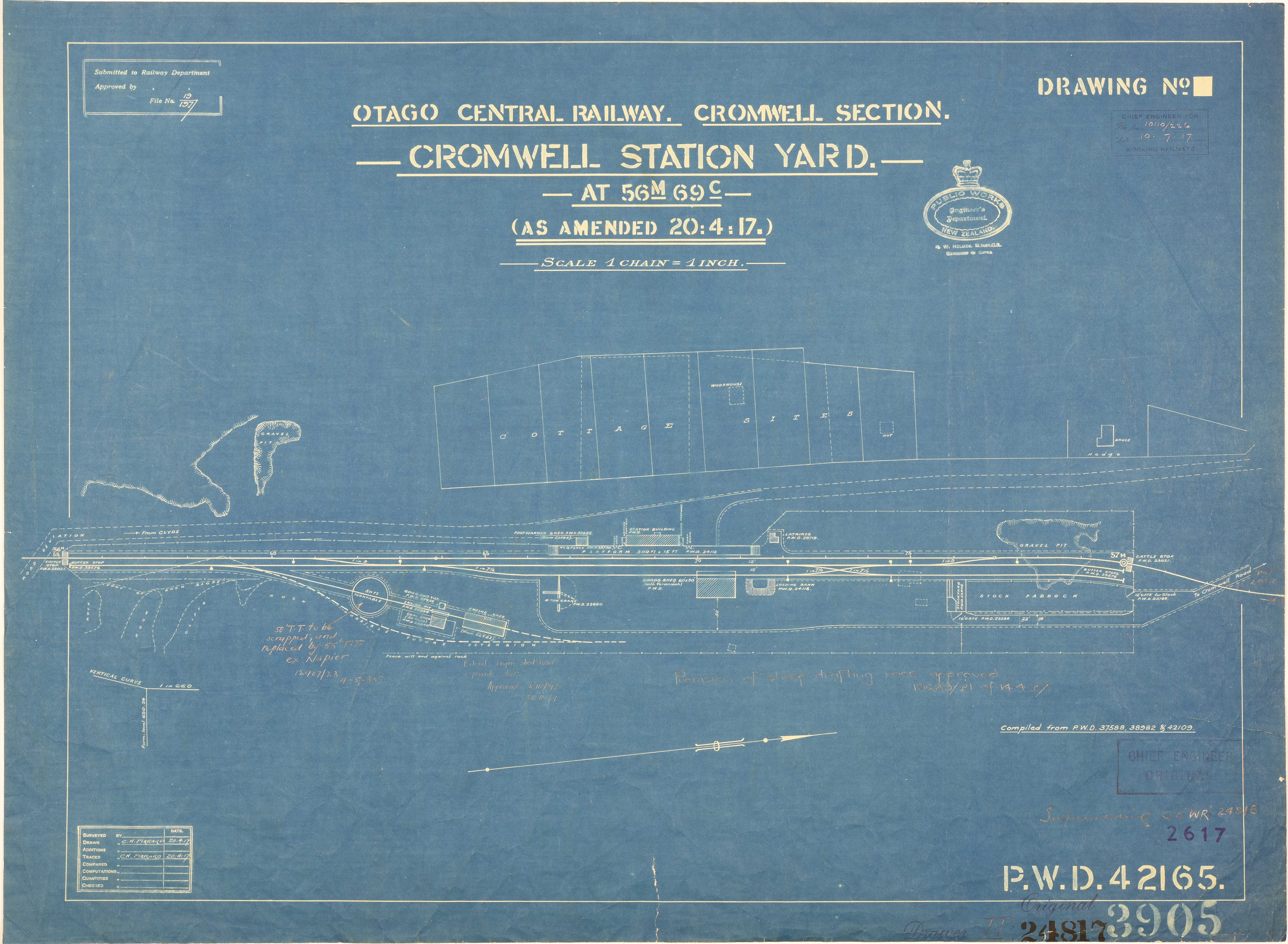 Otago Central Railway - Cromwell Section - Cromwell Station Yard at 56 Miles 69 Chains (1917) - Archives New Zealand Reference: DABB D101 12 / e DE 2617 - R6616869